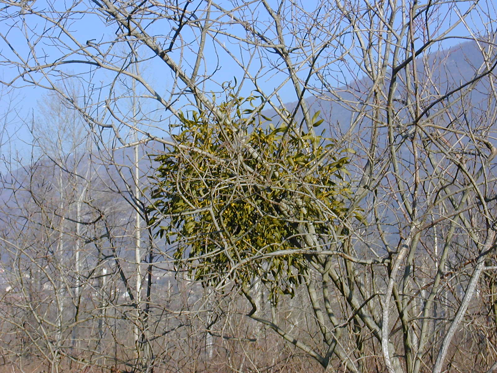 Mistletoe in a bush.